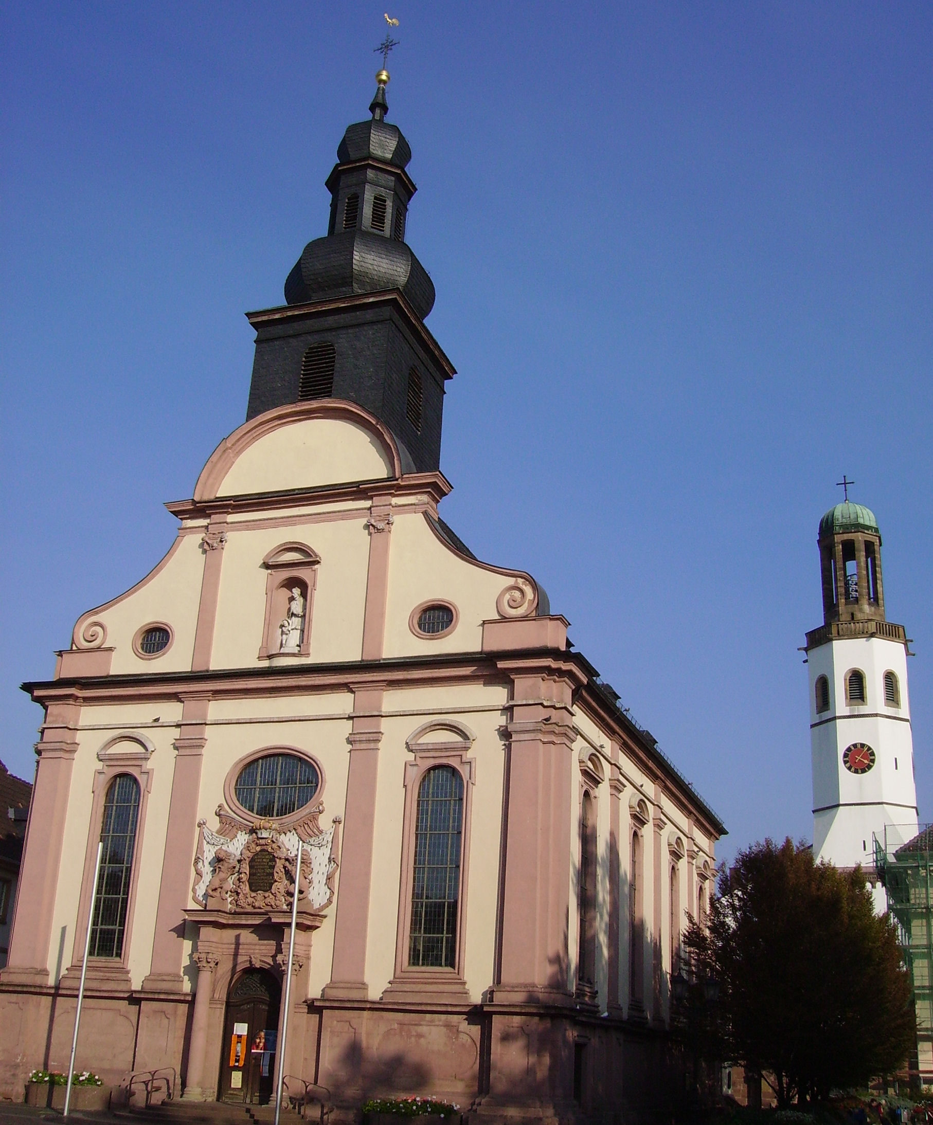 churches in Frankenthal in Rhineland-Palatinate (Germany)